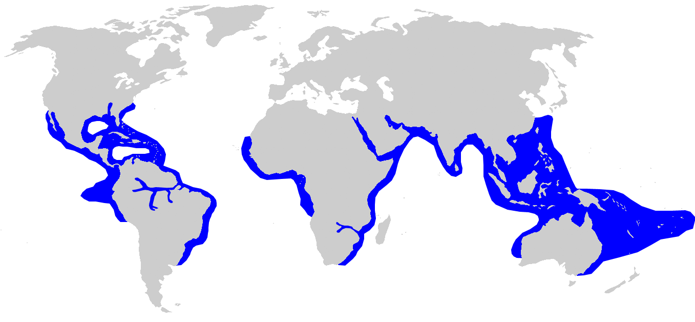 Distribution map for Carcharhinus leucas